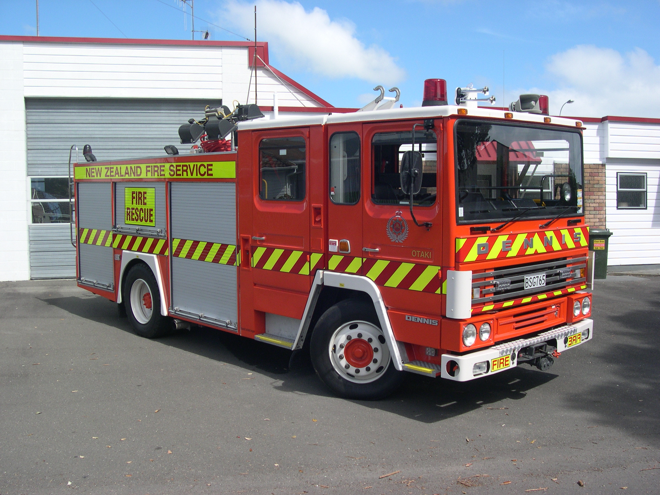 1989 Dennis SS233 More photos at